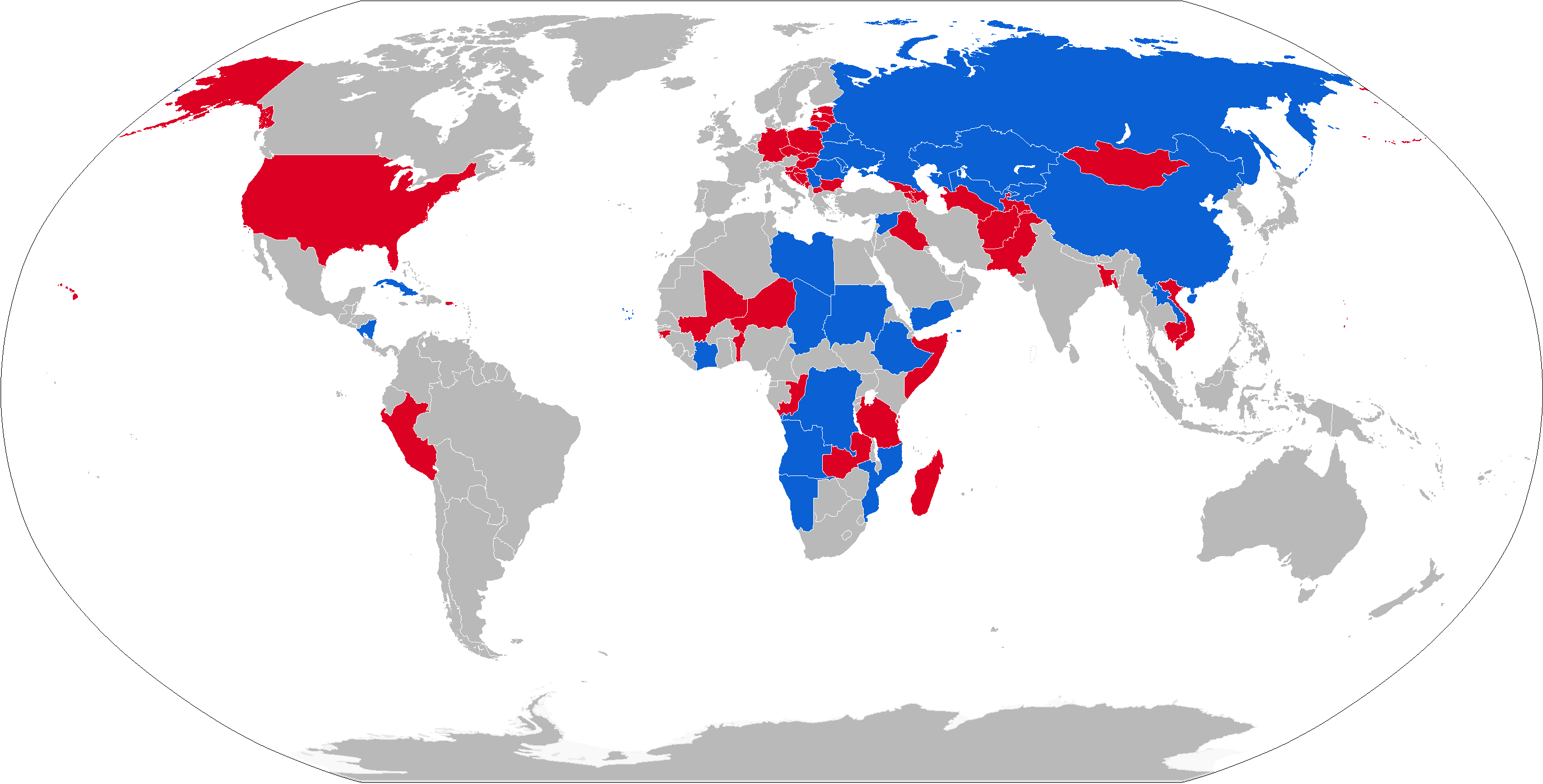 Map with military An-26 operators in blue, and former military An-26 operators in red